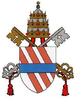 Coat of arms of Pope Clement XII